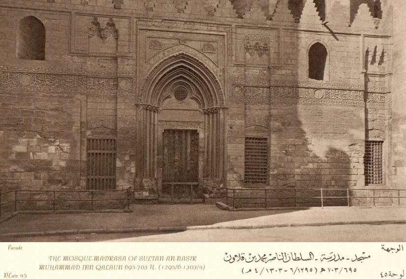 The Madrasah of Sultan An-Nasir Muhammad bin Qalaun; with gothic portal from St. Andrew's Church (Acre)